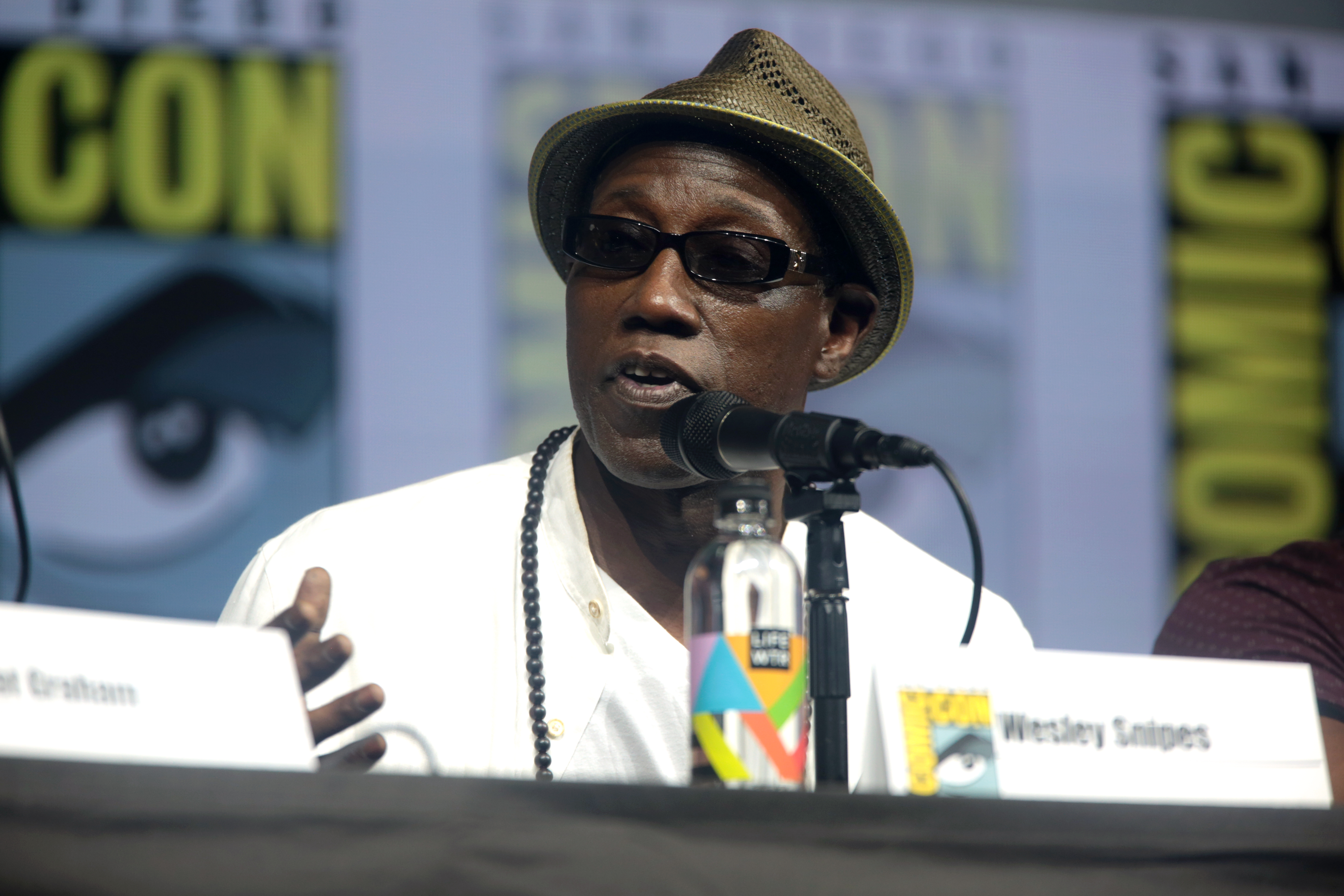 Wesley Snipes speaking at the 2018 San Diego Comic Con International, for "Cut Throat City", at the San Diego Convention Center in San Diego, California.